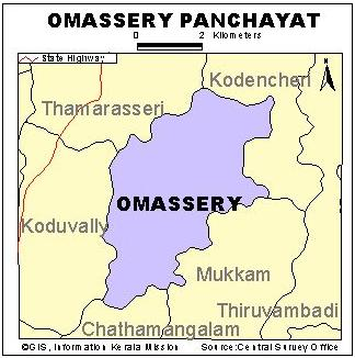 Omassery panchayath map layout